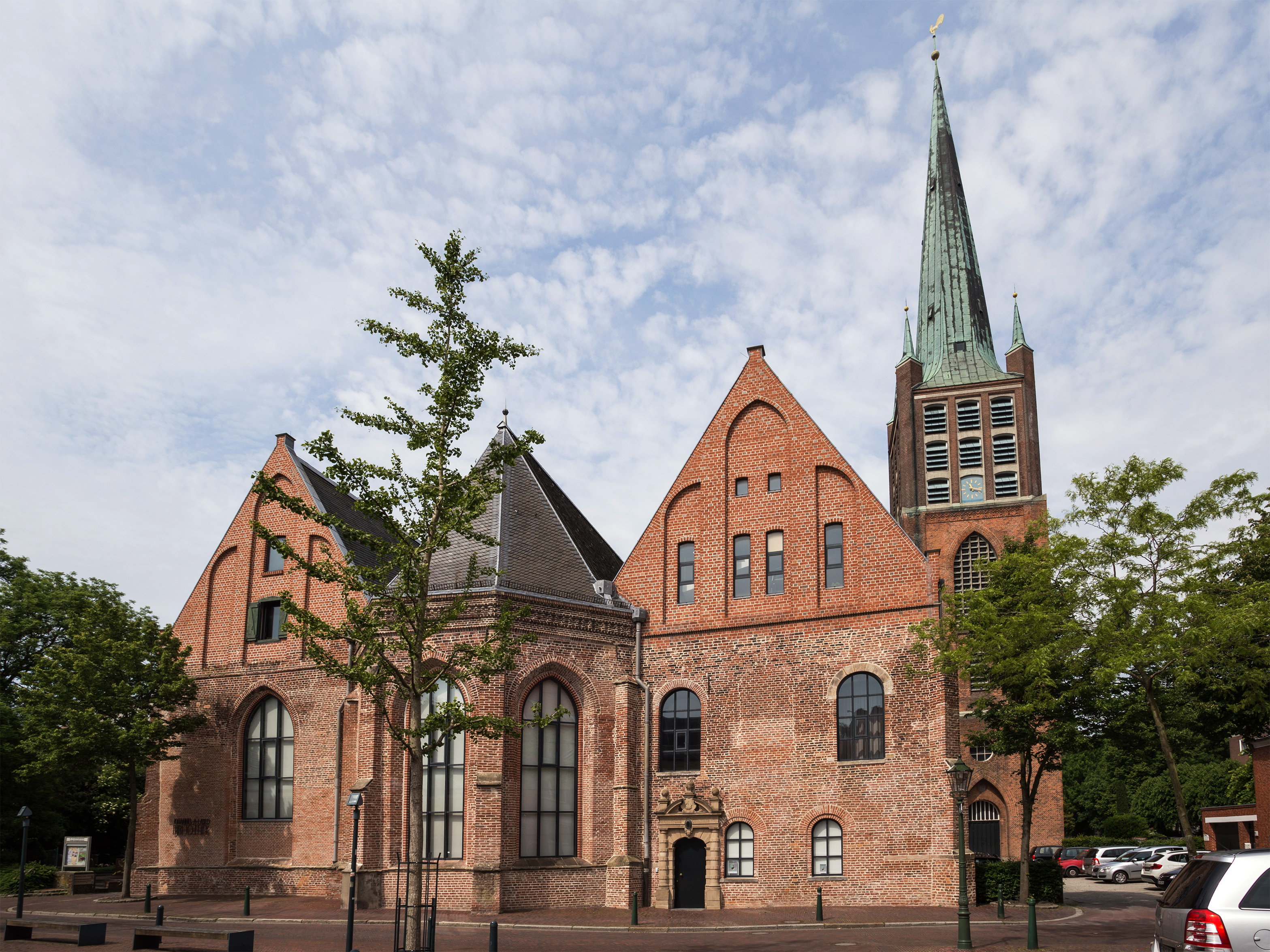 Emden, church "Große Kirche"